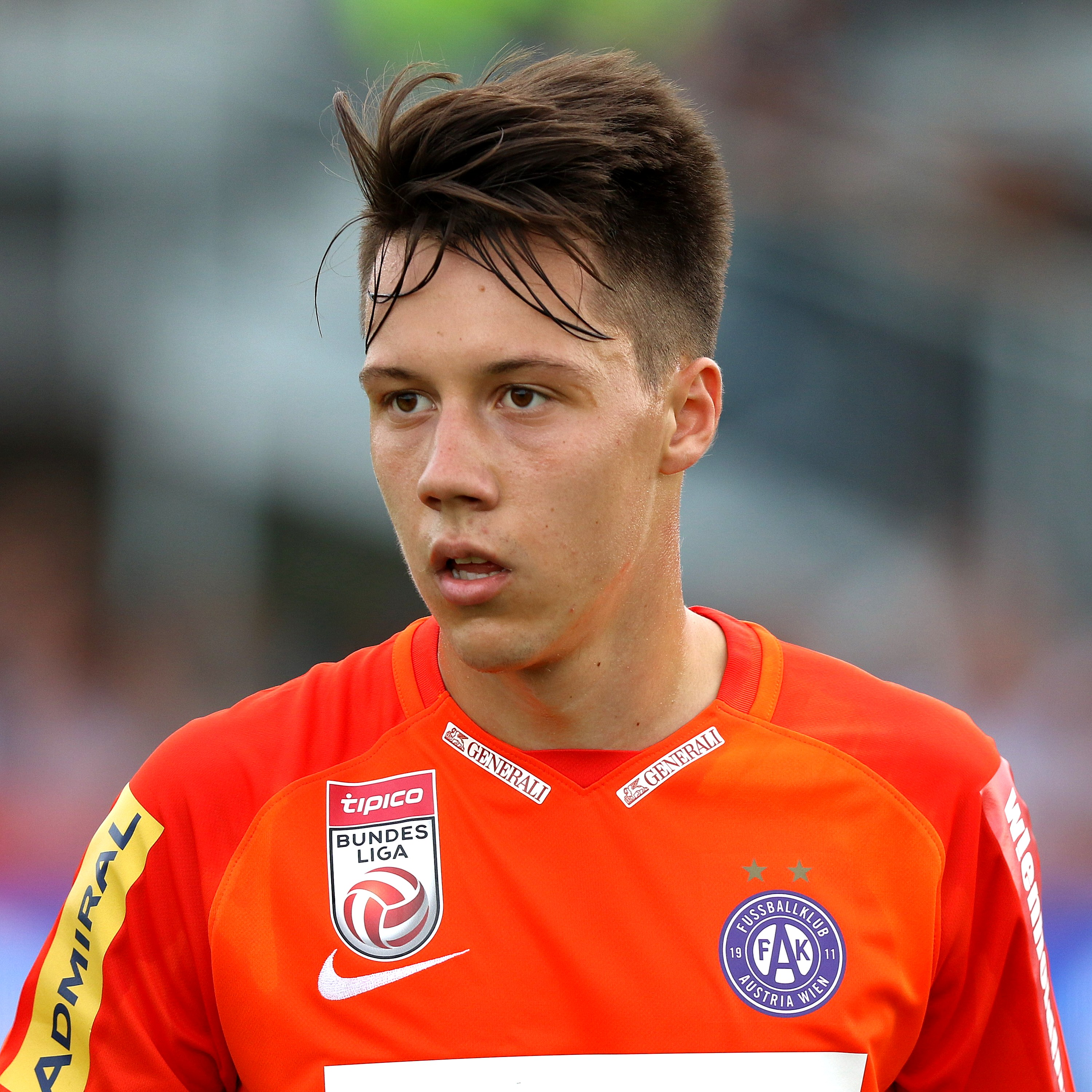 2017–18 Austrian Cup - ASK Ebreichsdorf (blue shirts) vs. FK Austria Wien (orange shirts) 0-0, penaltyscore 3-4. – The photo shows Dominik Prokop